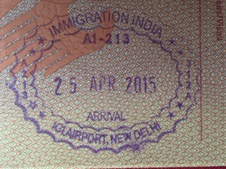 Current India passport entry stamp